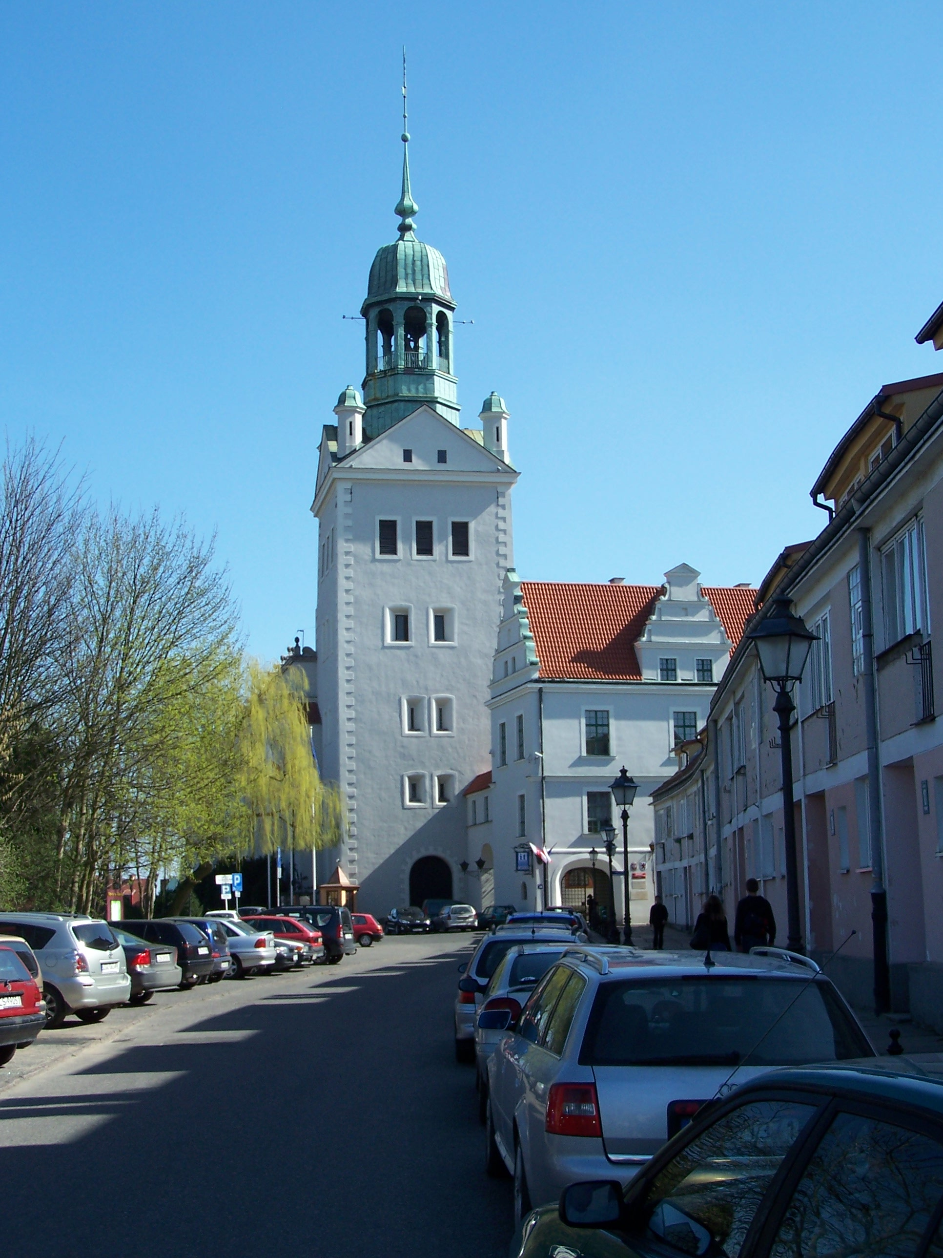 Szczecin castle tower